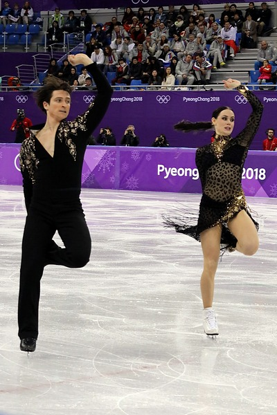 Tessa Virtue and Scott Moir at the 2018 Winter Olympic Games in PyeongChang